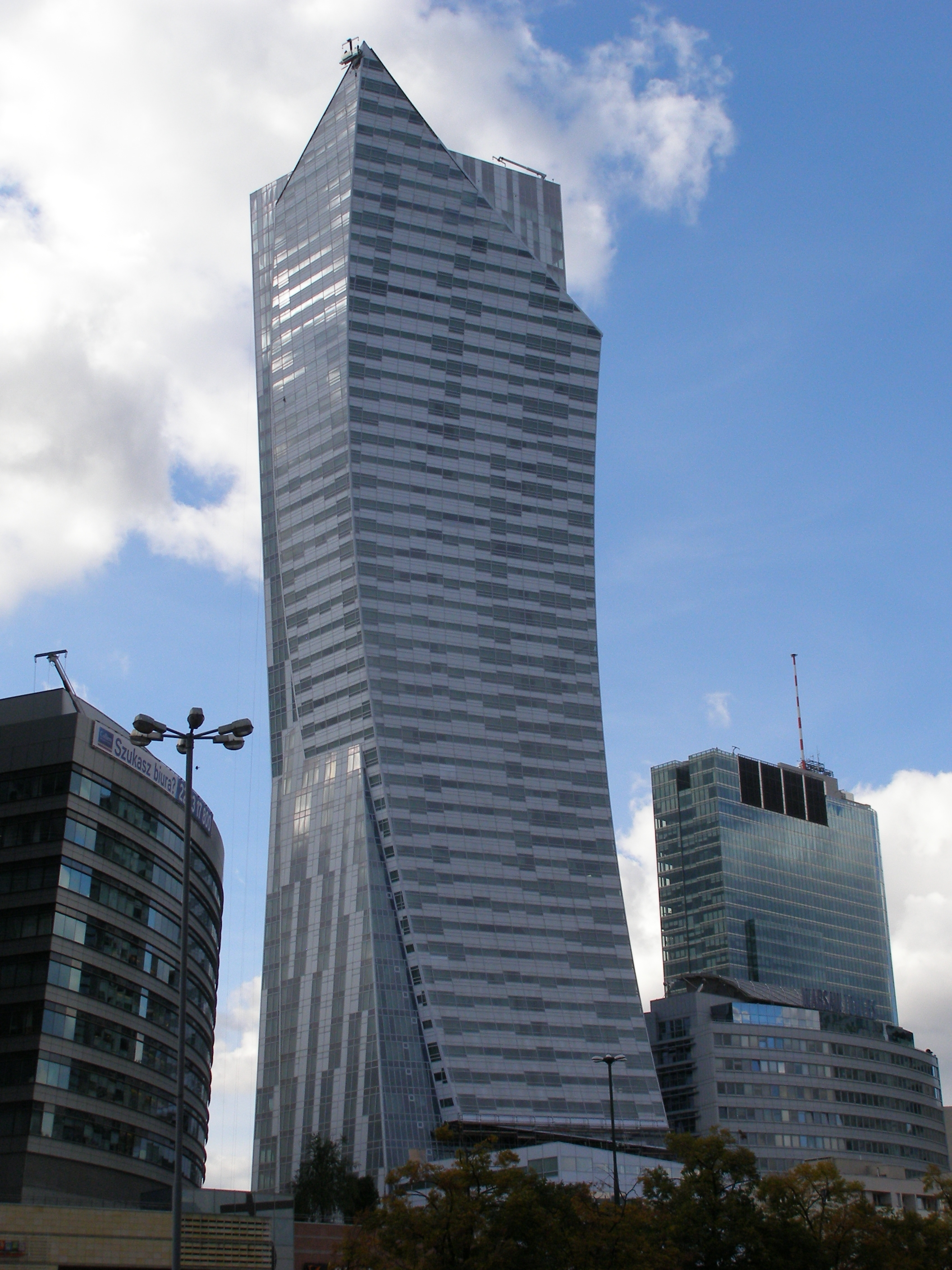 Warsaw - Złota 44 skyscraper